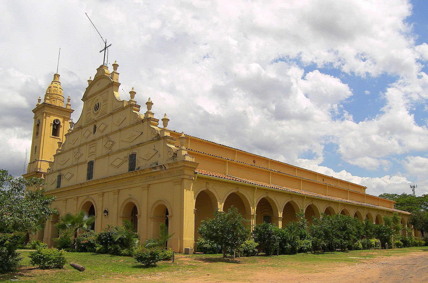 Iglesia de la Santísima Trinidad de Asunción del Paraguay